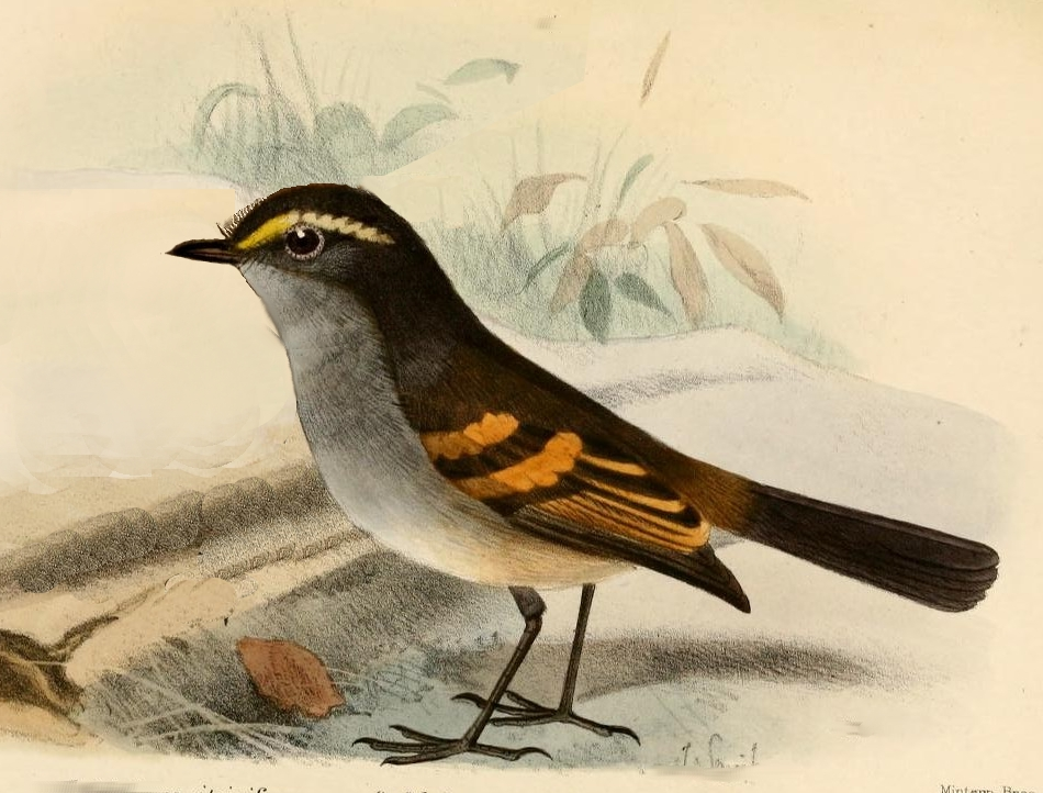 Crowned Chat-tyrant (left), Golden-browed Chat-tyrant (right)